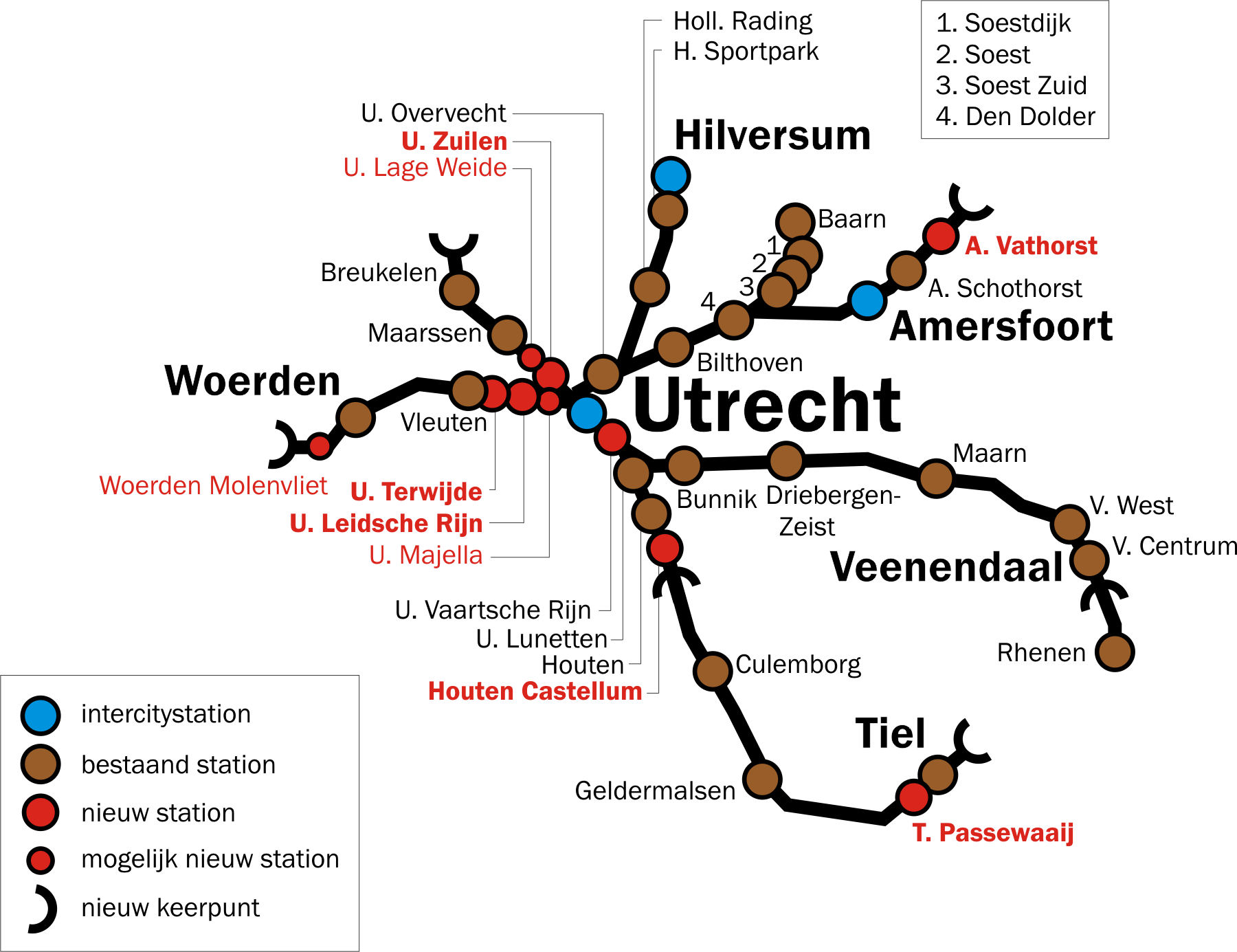 Overview of the Randstadspoor project around Utrecht, the Netherlands.